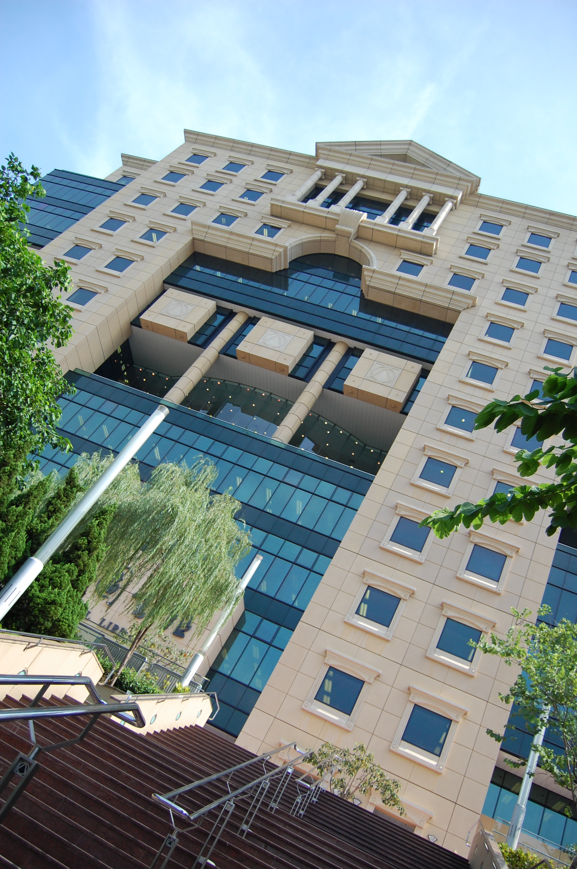 Hong Kong Central Library.